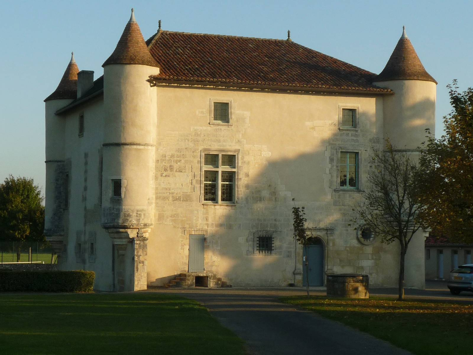 castle of La Rochette, Charente, SW France